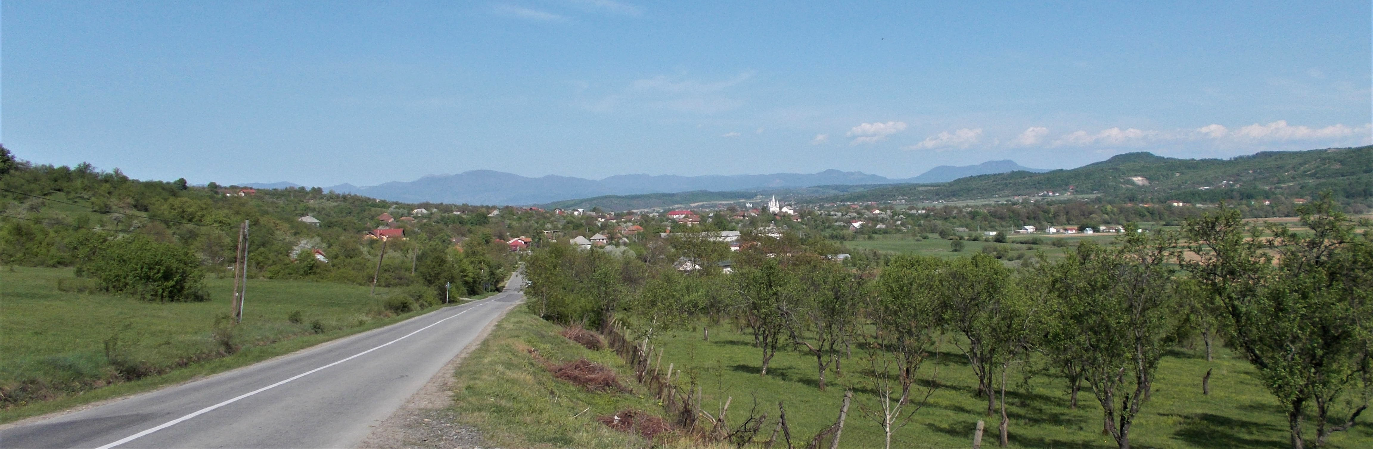 Remetea Chioarului, Maramureș County, Romania